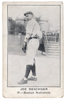 Joe Oeschger in Boston Nationals Uniform 1922